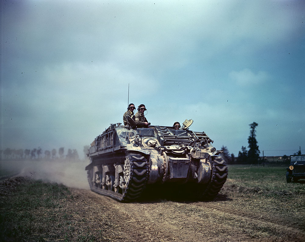 Sherman III ARV I - British Amoured Recovery Vehicle conversion of Sherman III (M4A2), REME, 79th Armoured Division, Summer 1944. Note large winch pulley on front glacis plate and specialized storage on hull sides. Original caption: Canadian Armour Moving into Positions For Attack South of Caen, France.